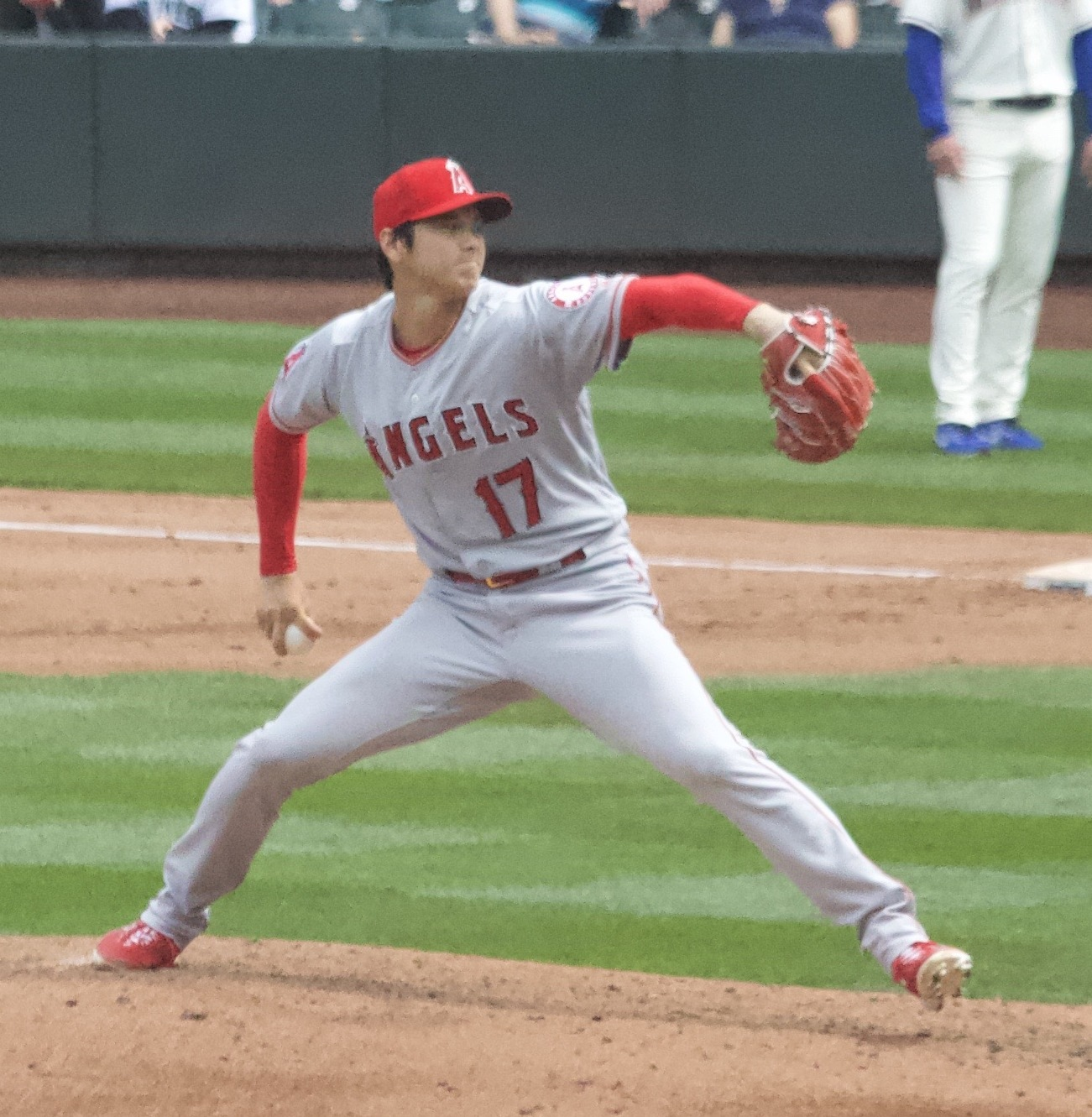 Long day for Mariners fans, and a big day for Shohei Ohtani.